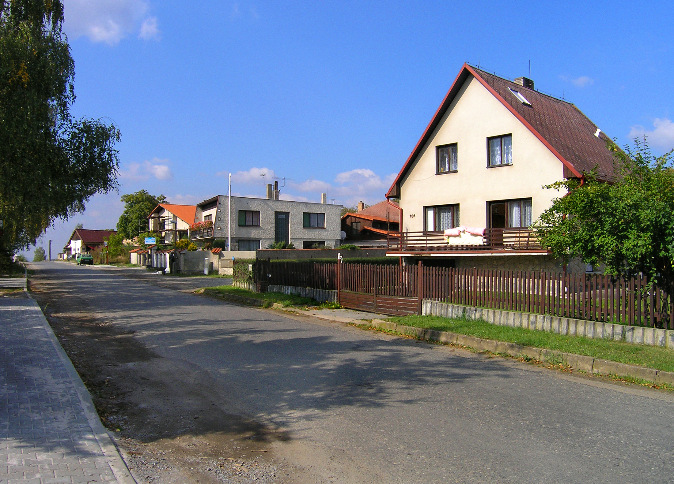 Road to Škvorec in Hradešín, Czech Republic